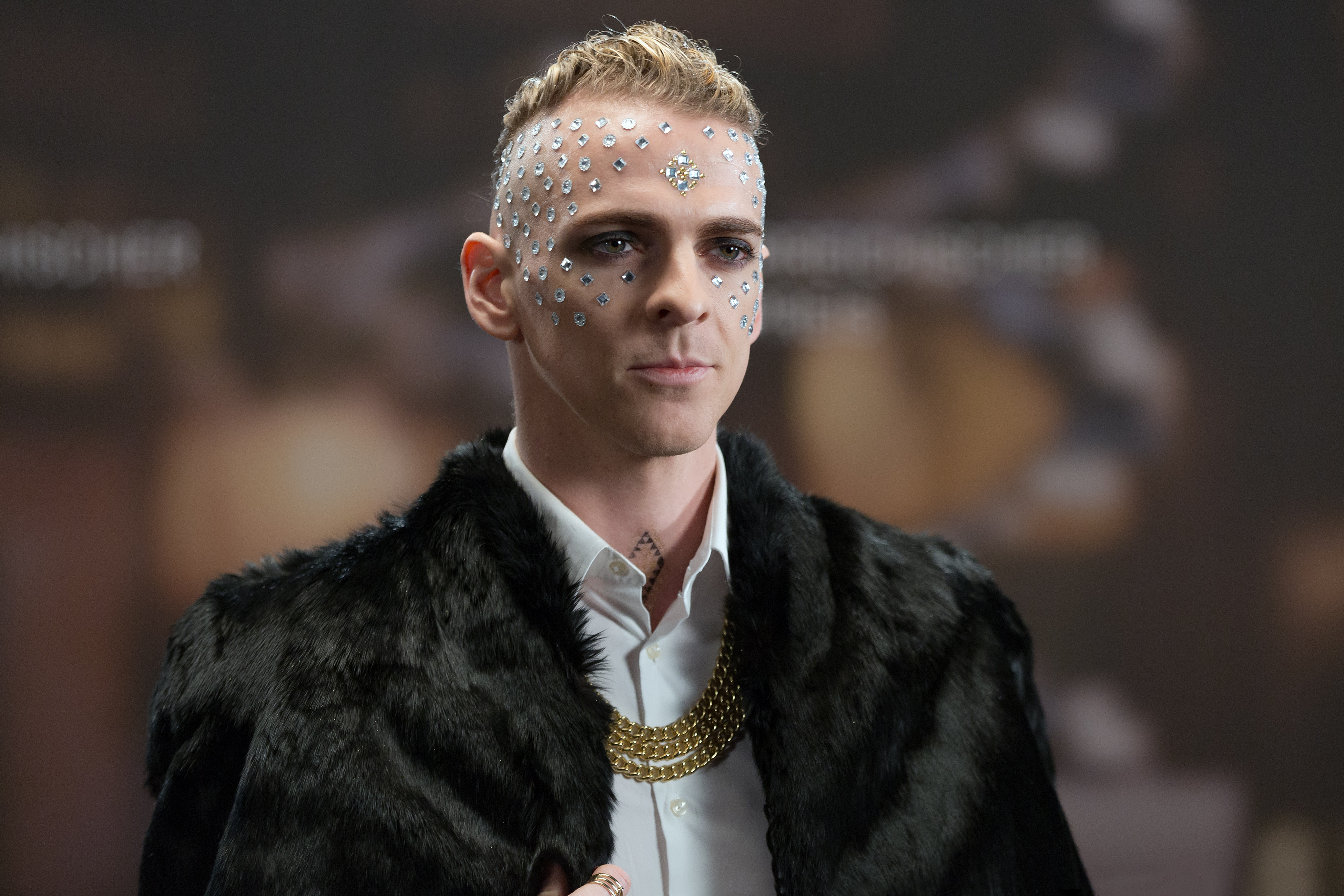 Philipp Fussenegger, writer and director of Henry, at the Austrian Film Awards 2017 (Rathaus, Vienna,Austria).